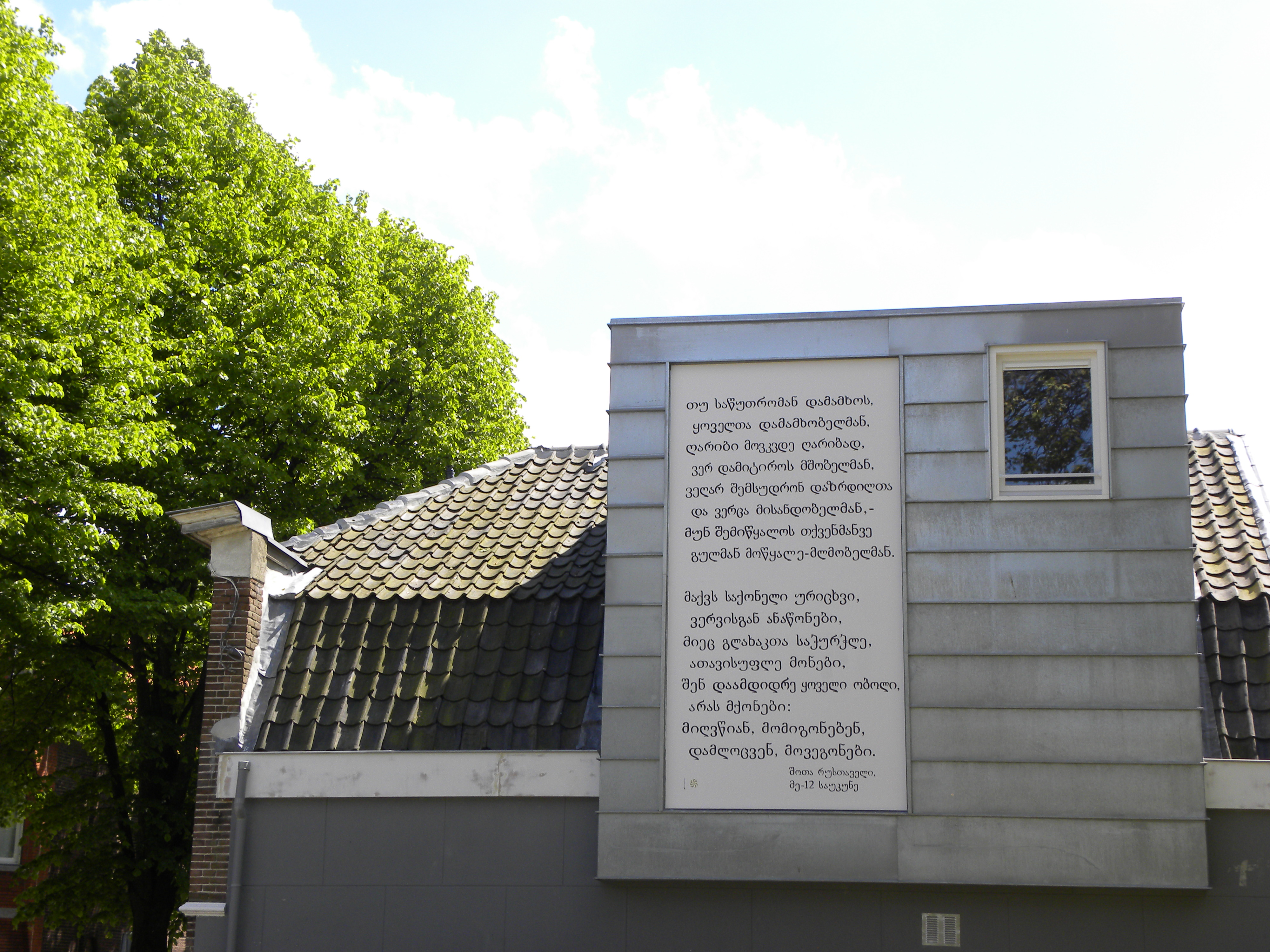 A wallpoem in Leiden of the poem The Man in the Panther's Skin by Sjota Roestaveli.